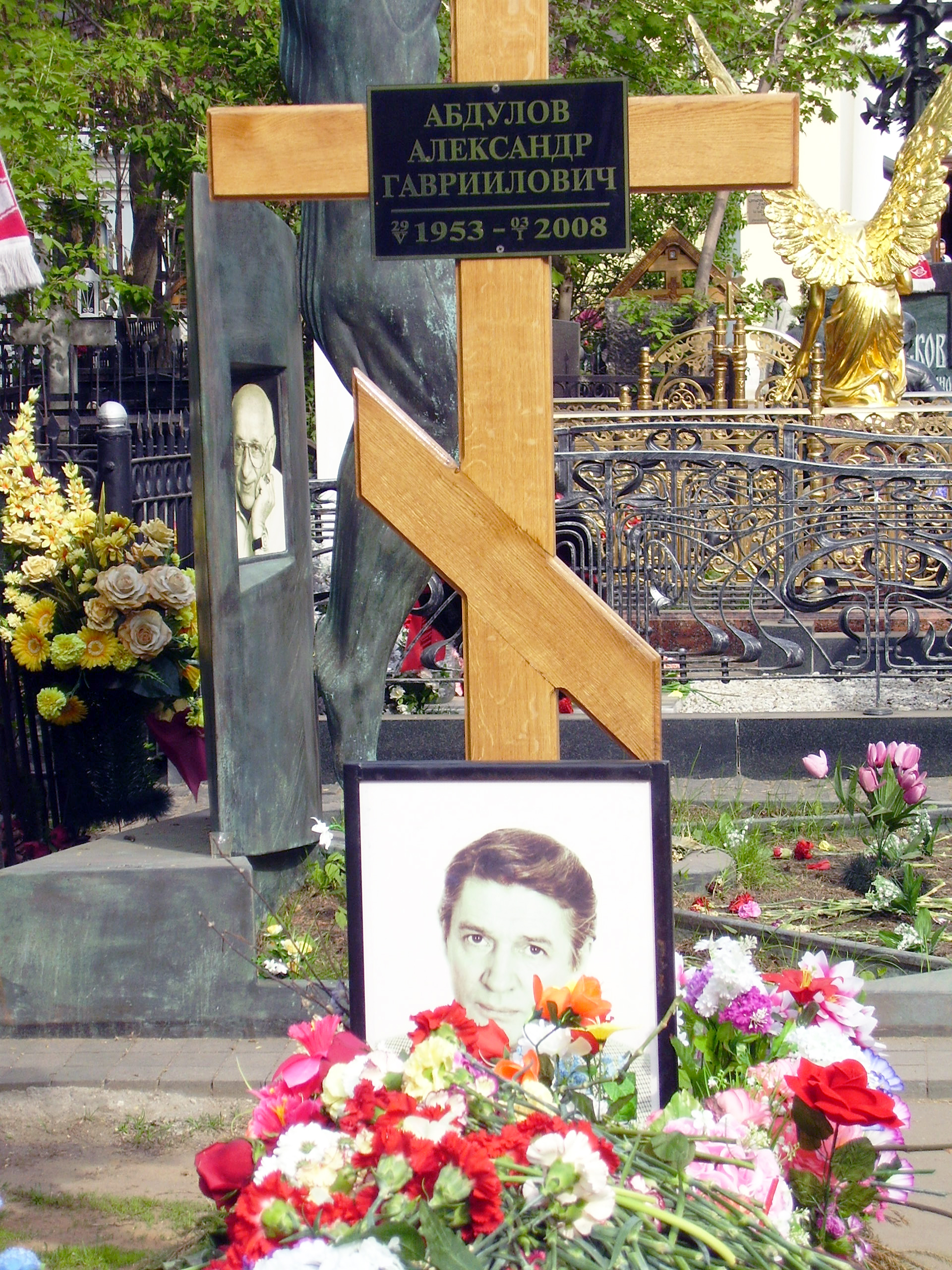 Photo of Aleksandr Abdulov's tomb